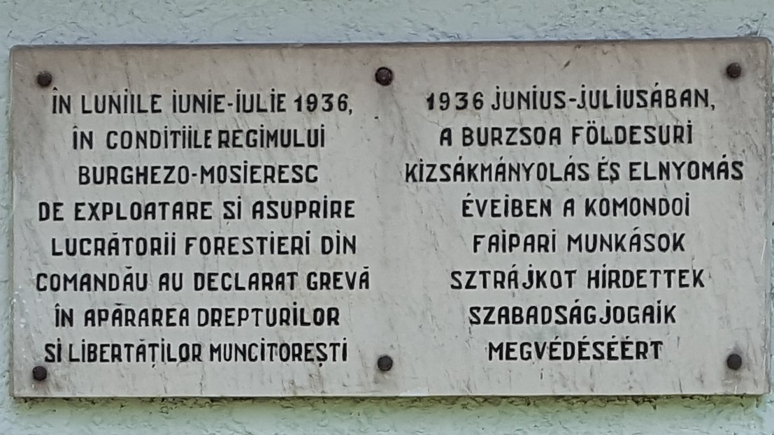 Detail of a Hungarian-Romanian memorial plaque in Comandău, Romania, commemorating a workers' strike in 1936.